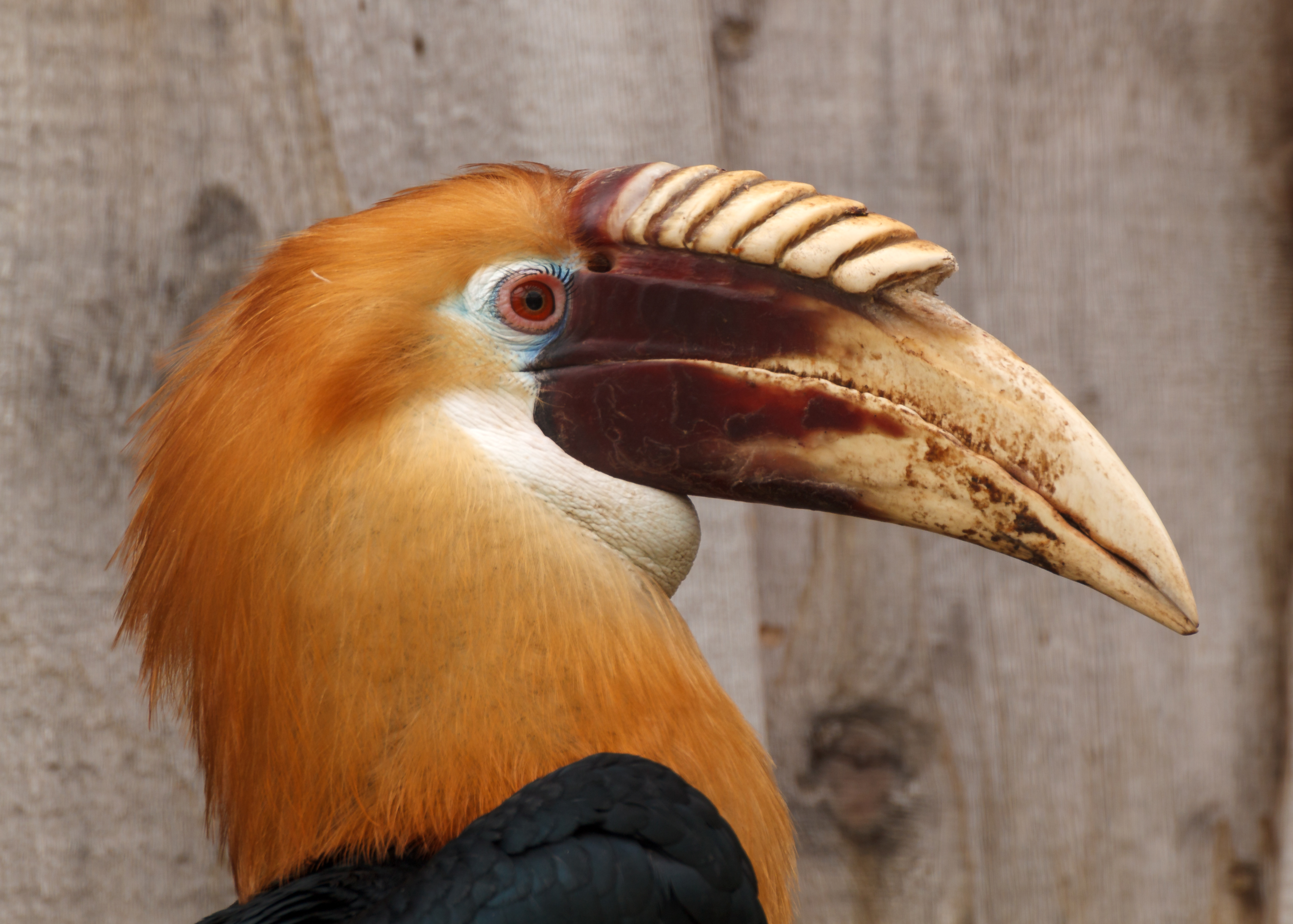 Head of a male Rhyticeros plicatus (J.R.Forst., 1781), Blyth's hornbill; Heidelberg Zoo, Heidelberg, Germany.